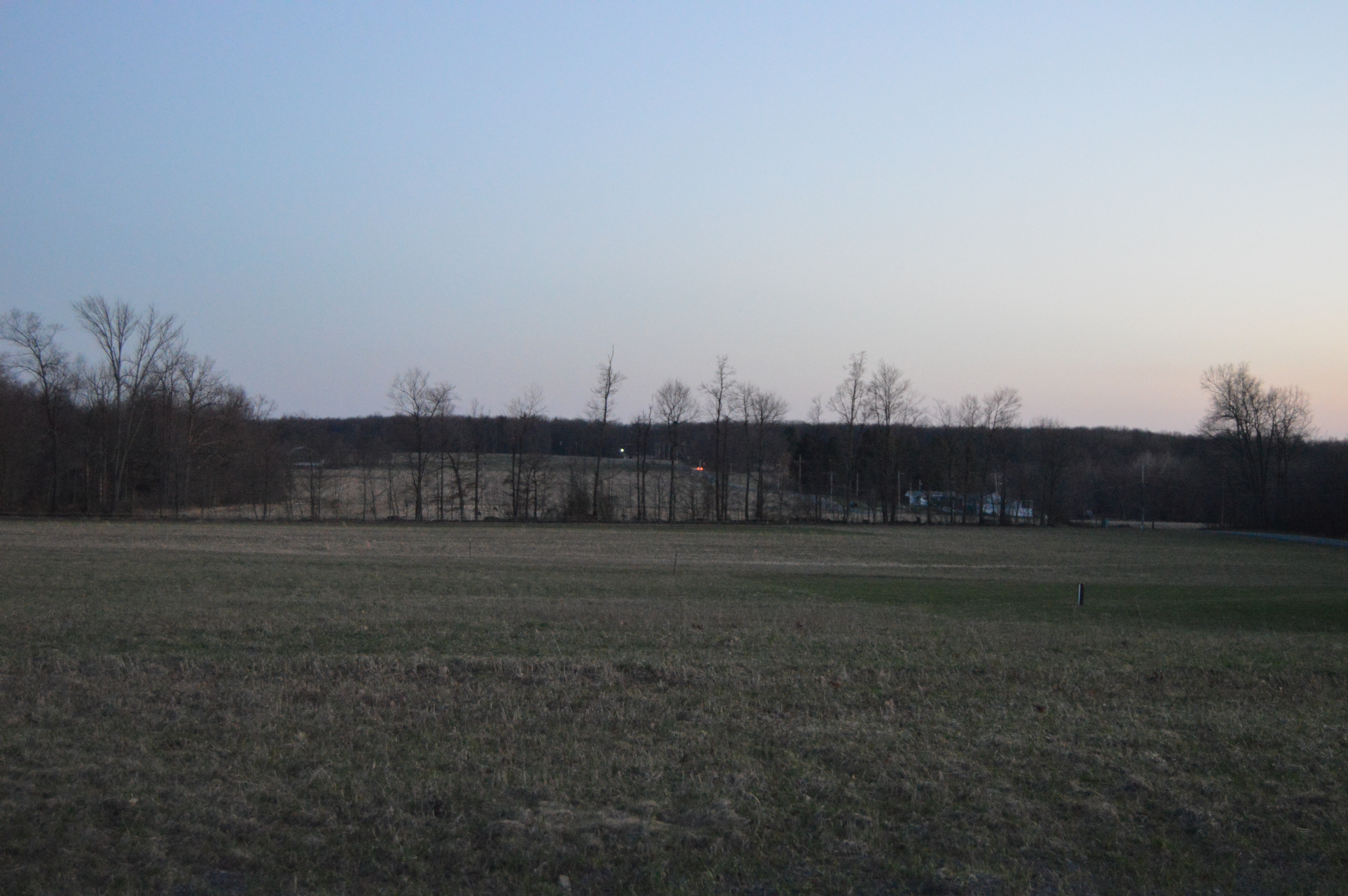 Fields in southeastern Burnside Township, Clearfield County, Pennsylvania, United States. Photo looks south from Westover Road just east of the Ridge Road intersection.